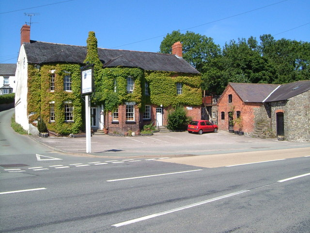 The Lion, Llansantffraid-ym-Mechain